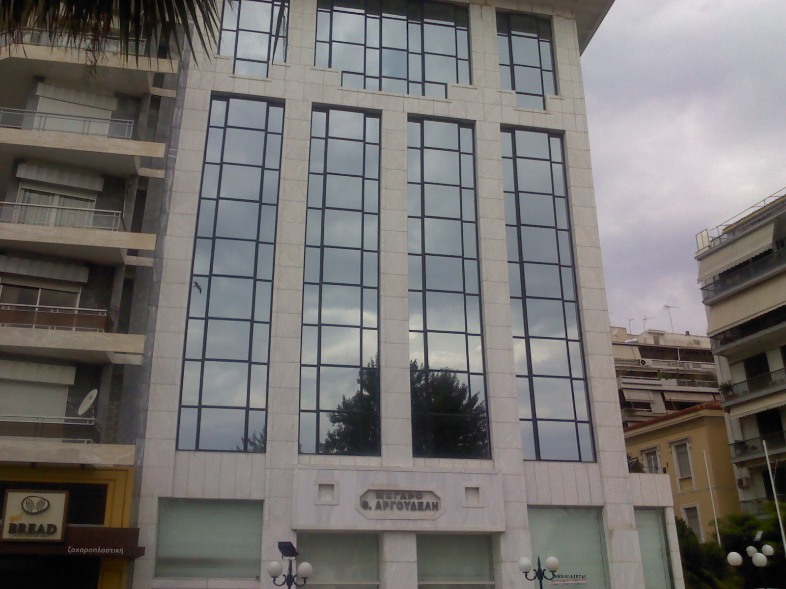 Palace Argoudeli